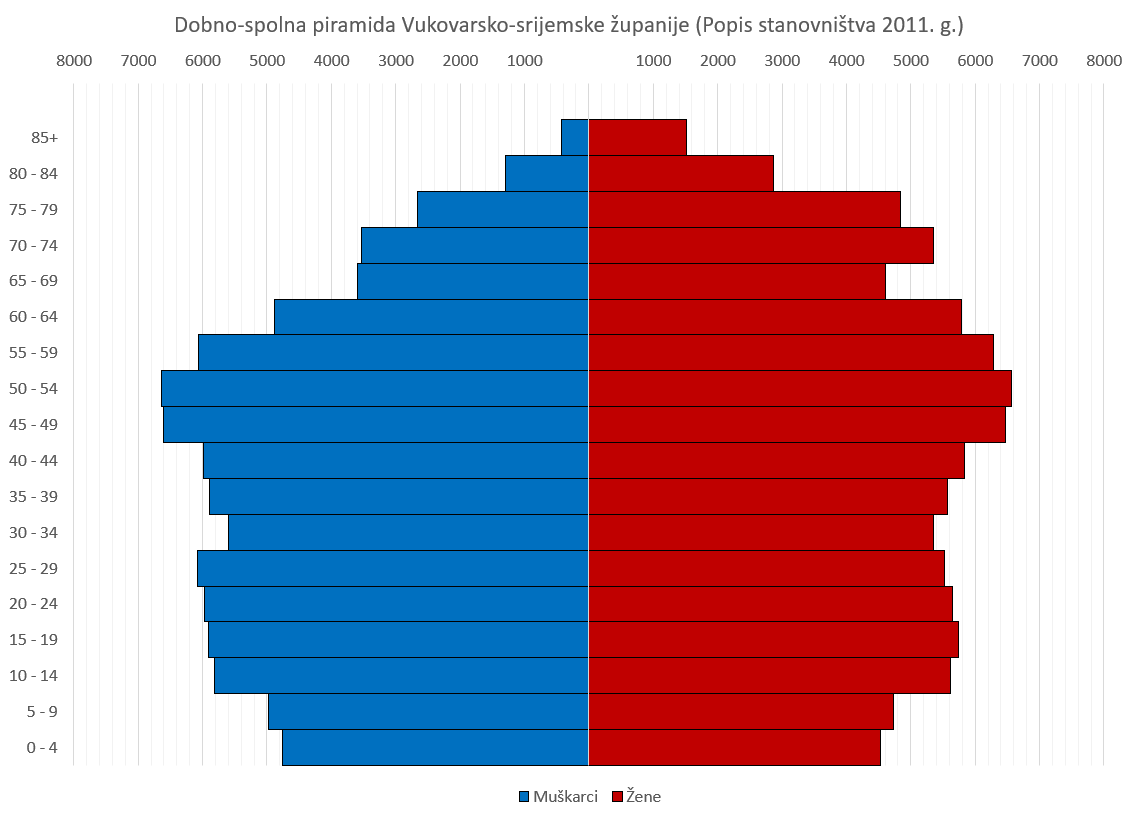 Population pyramid of Vukovar-Sirmium County. Version in Croatian. Data from 2011 Census; available at